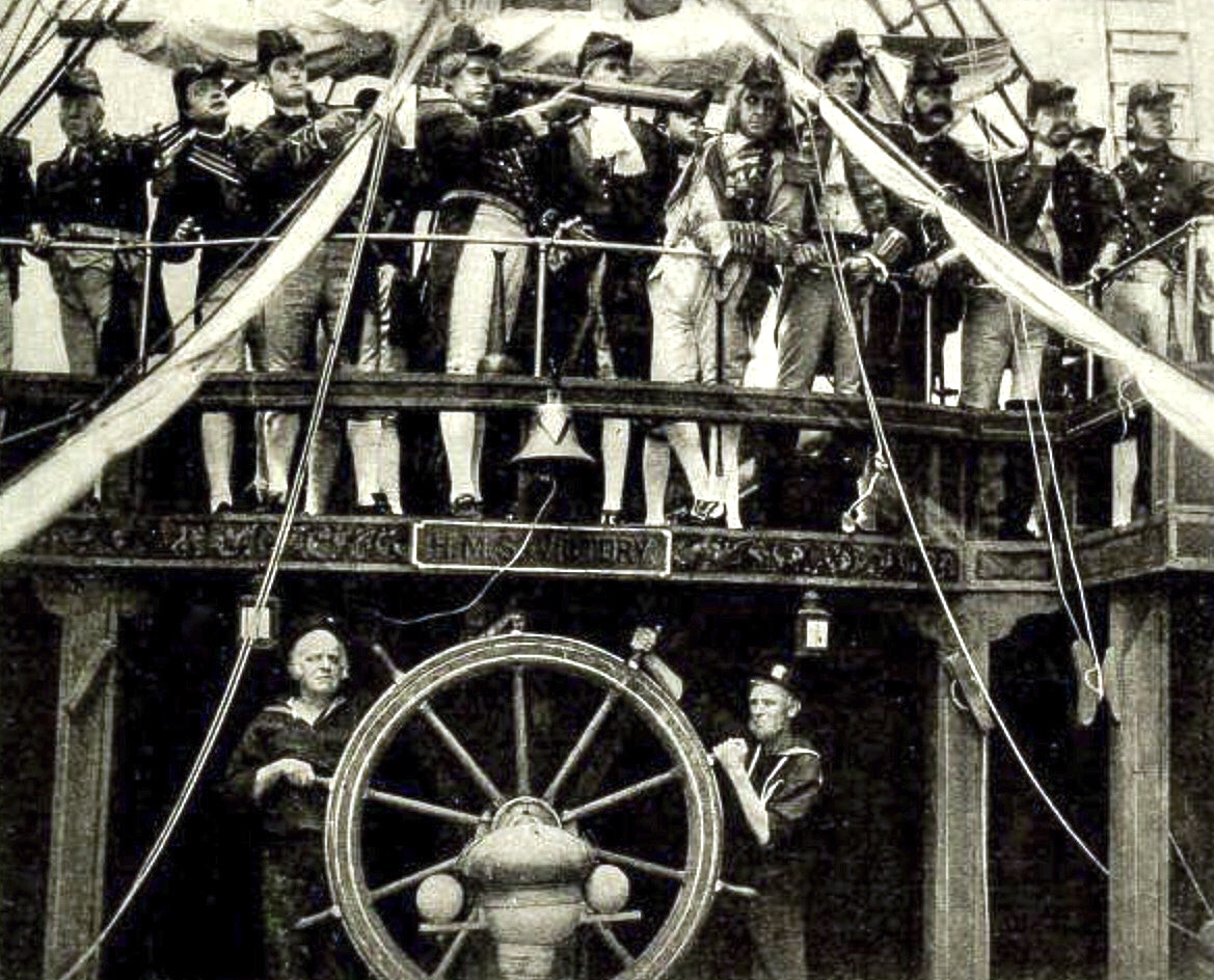 Film still used as illustration for an article, "The Battle of Trafalgar (Edison)", by scenario writer Edwin M. La Roche, which in 1911 was intended to provide readers historical context for Edison Studios' one-reel production The Battle of Trafalgar, a lost film that was released in September that year and starred Sydney Booth as Royal Navy Admiral Horatio Nelson; published in the trade publication The Motion Picture Story Magazine (New York, N.Y), September 1911, p. 91; original caption to image reads "Before The Battle"; scene portrays Admiral Nelson (fifth from right, leaning on rail) in line of his officers on the HMS Victory, where they are observing the enemy Franco-Spanish fleet in the distance as their British flagship sails into battle.